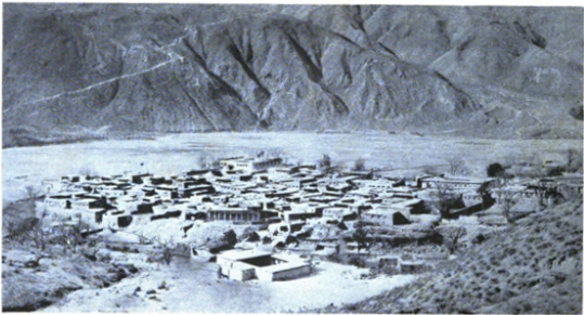 Batang in Sichuan, China